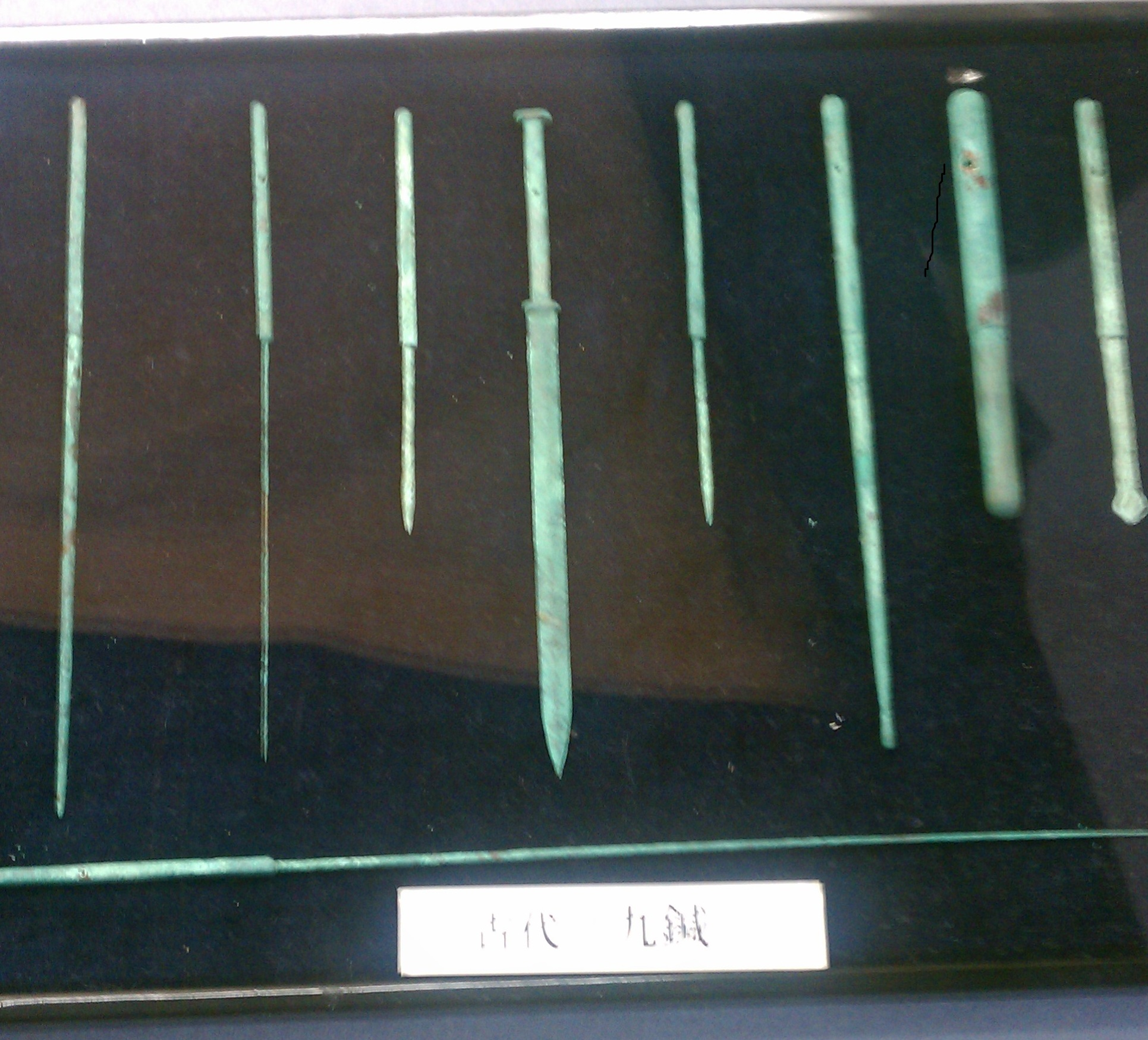 an ancient Chinese medical text「Huangdi Neijing」 mention this Acupuncture